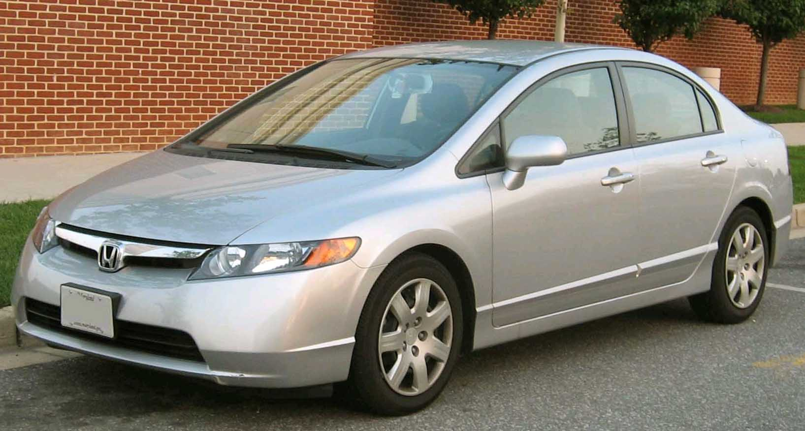 2006-2008 Honda Civic photographed in USA.